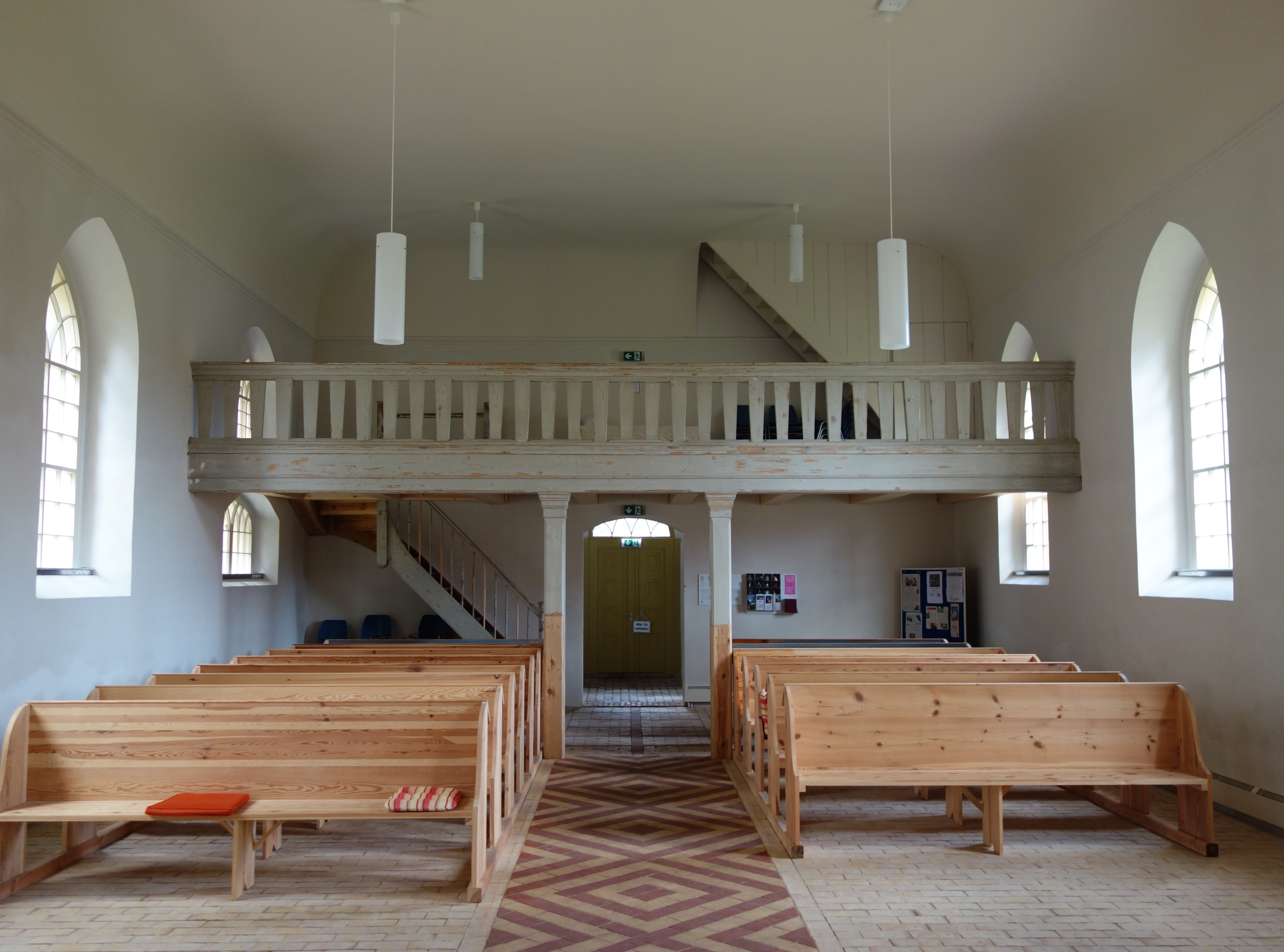 Western interior of church in Zeestow, Brieselang municipality, Havelland district, Brandenburg state, Germany